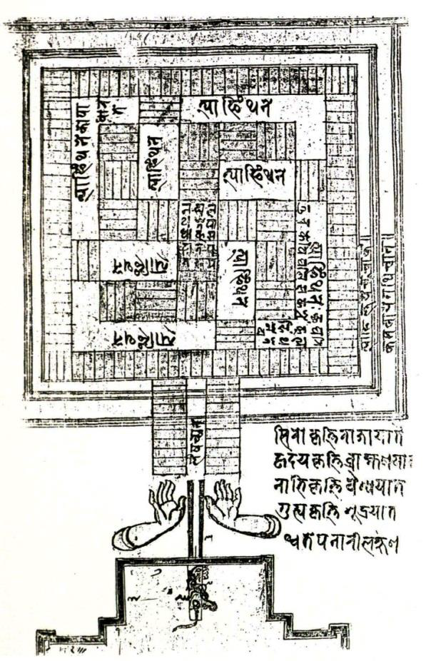 Ancient drawing of a Nepalese hiti, with emphasis on the filter system. A swastika pattern can be seen clearly.